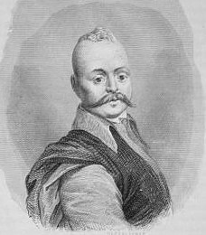 Tadeusz Reytan by Leonard Chodźko (1800-1871)